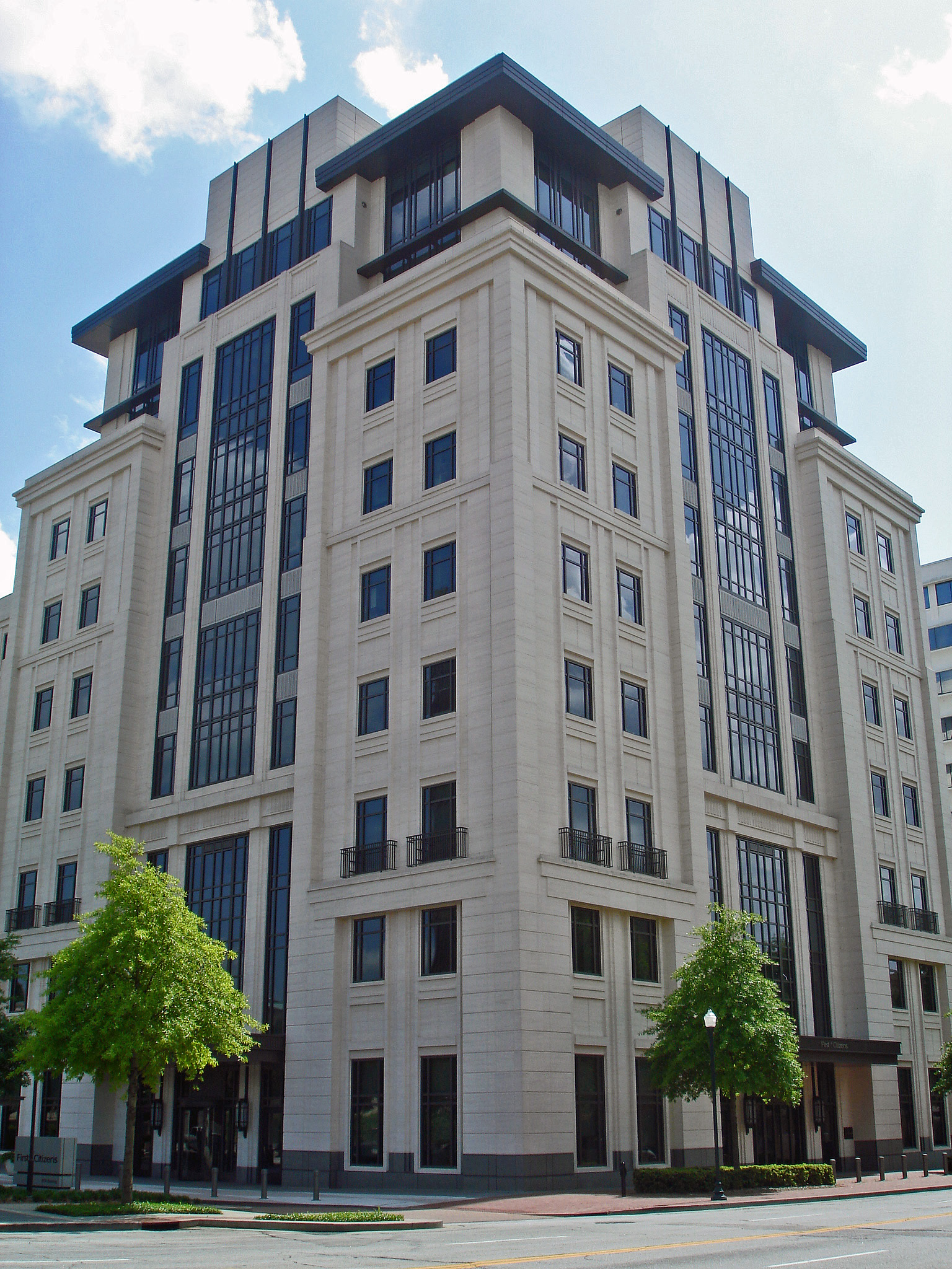 First Citizens Bank headquarters building, downtown Columbia, South Carolina, USA